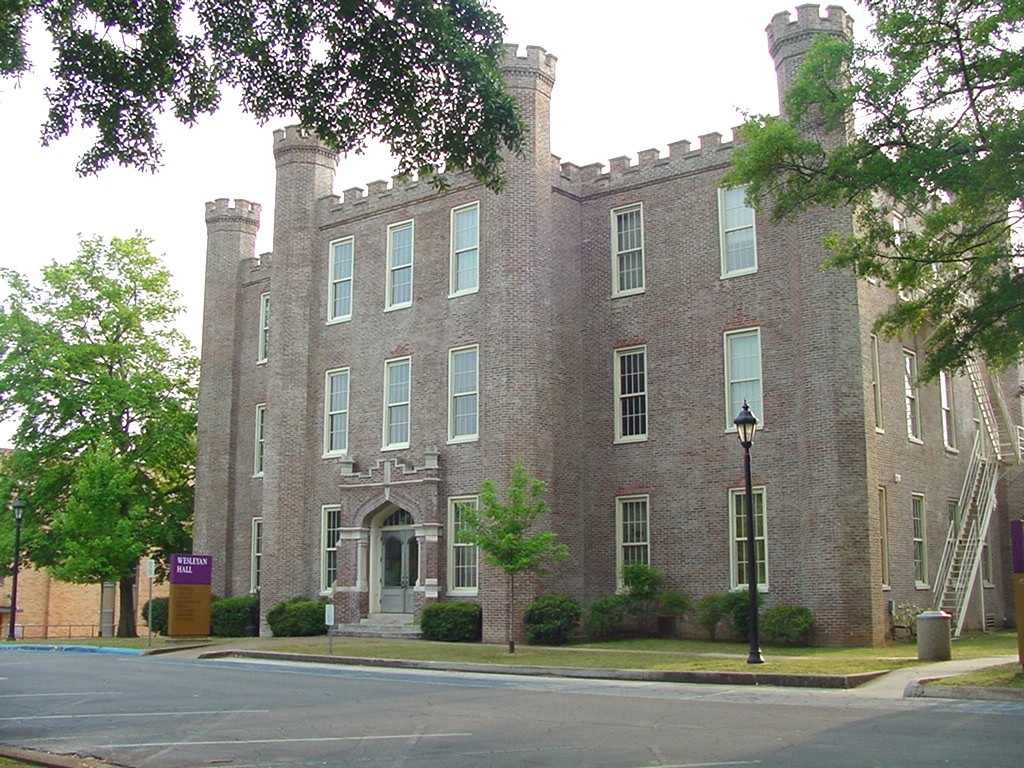 Historic Wesleyan Hall on the University of North Alabama Campus. Taken by me, June, 2007, on the UNA Campus.